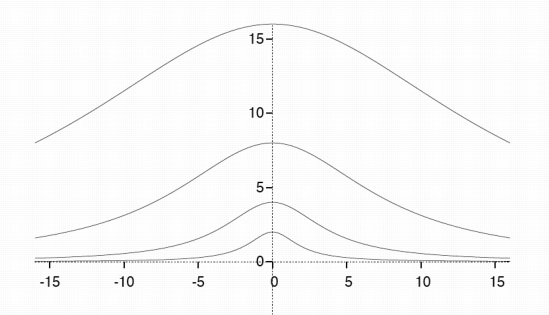 Summary Examples of the curve, the Witch of Agnesi.